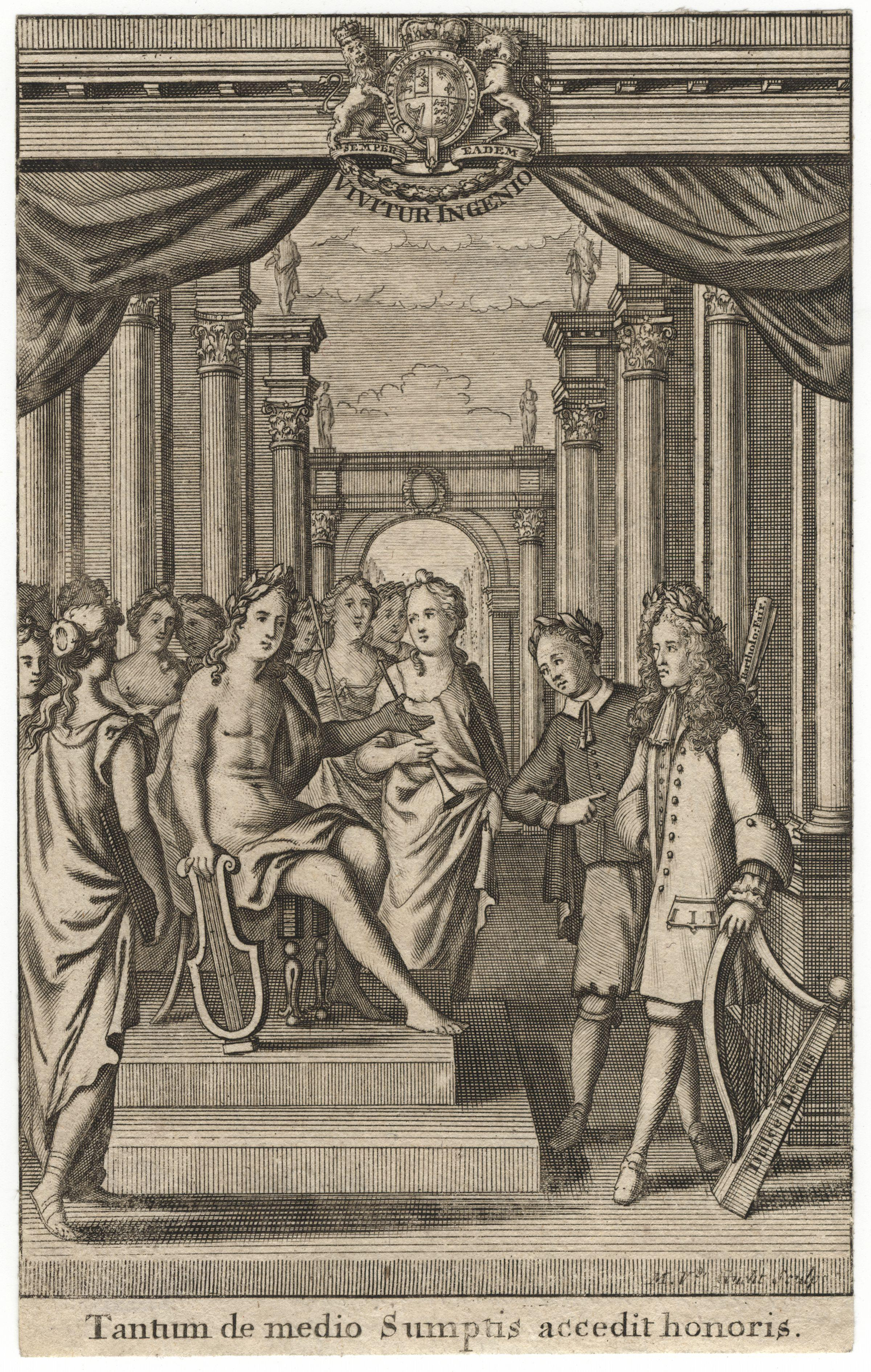 George Farquhar, by unknown artist, published 1711. All images in this batch are listed as "unknown author" by the NPG, who is diligent in researching authors, and was first published before 1939 according to their website.